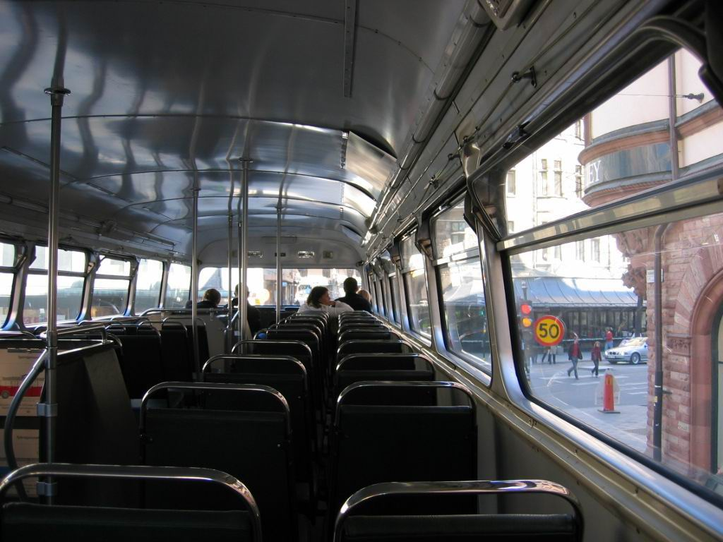 Top floor at a Leyland Atlantean in Stockholm in april 2005.